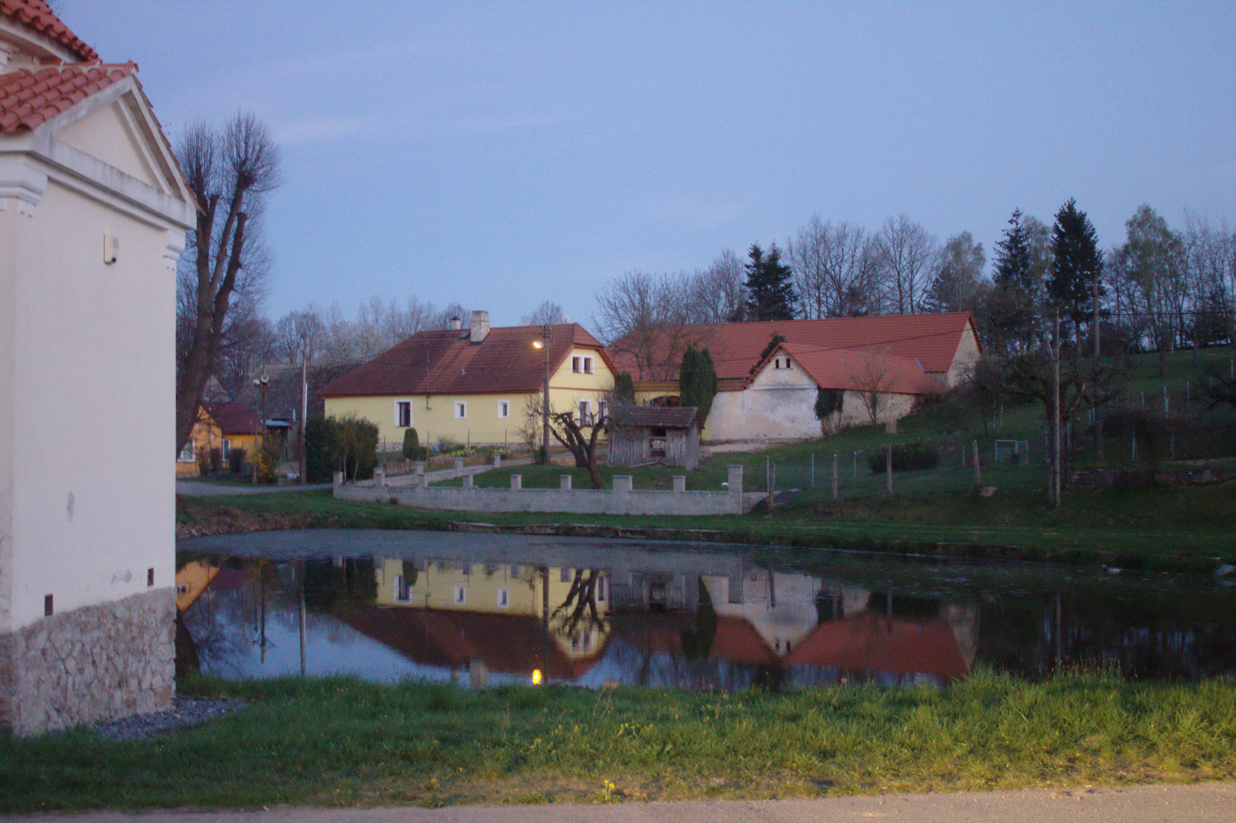 This photograph was created as a part of Wikiexpedition Mladá Vožice, a project supported by Wikimedia Foundation grant.